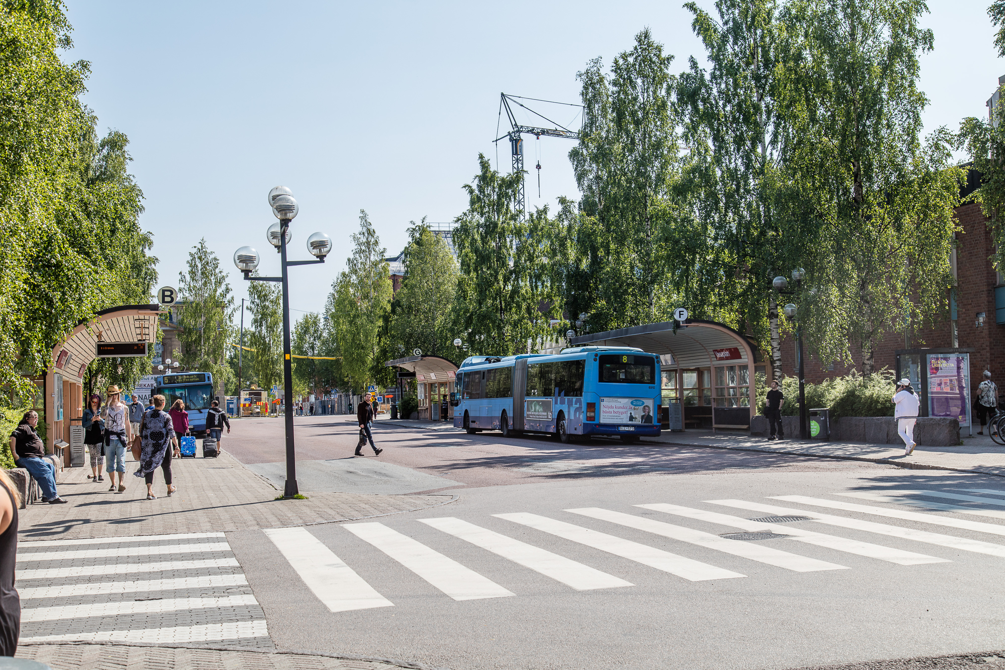 Vasaplan is the central hub for local buses in Umeå, and surrounded by a lot of restaurants and hotels.